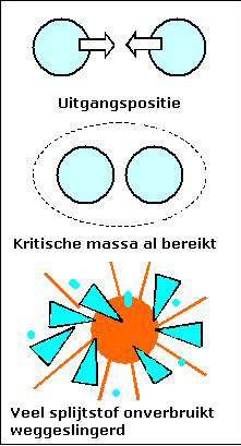 Drawing of an atomic bomb with too slow reaching critical mass